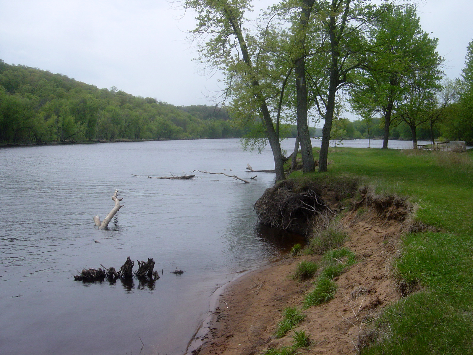 The St. Croix River, off of Osceola Landing (a part of Saint Croix National Scenic Riverway), near Osceola.